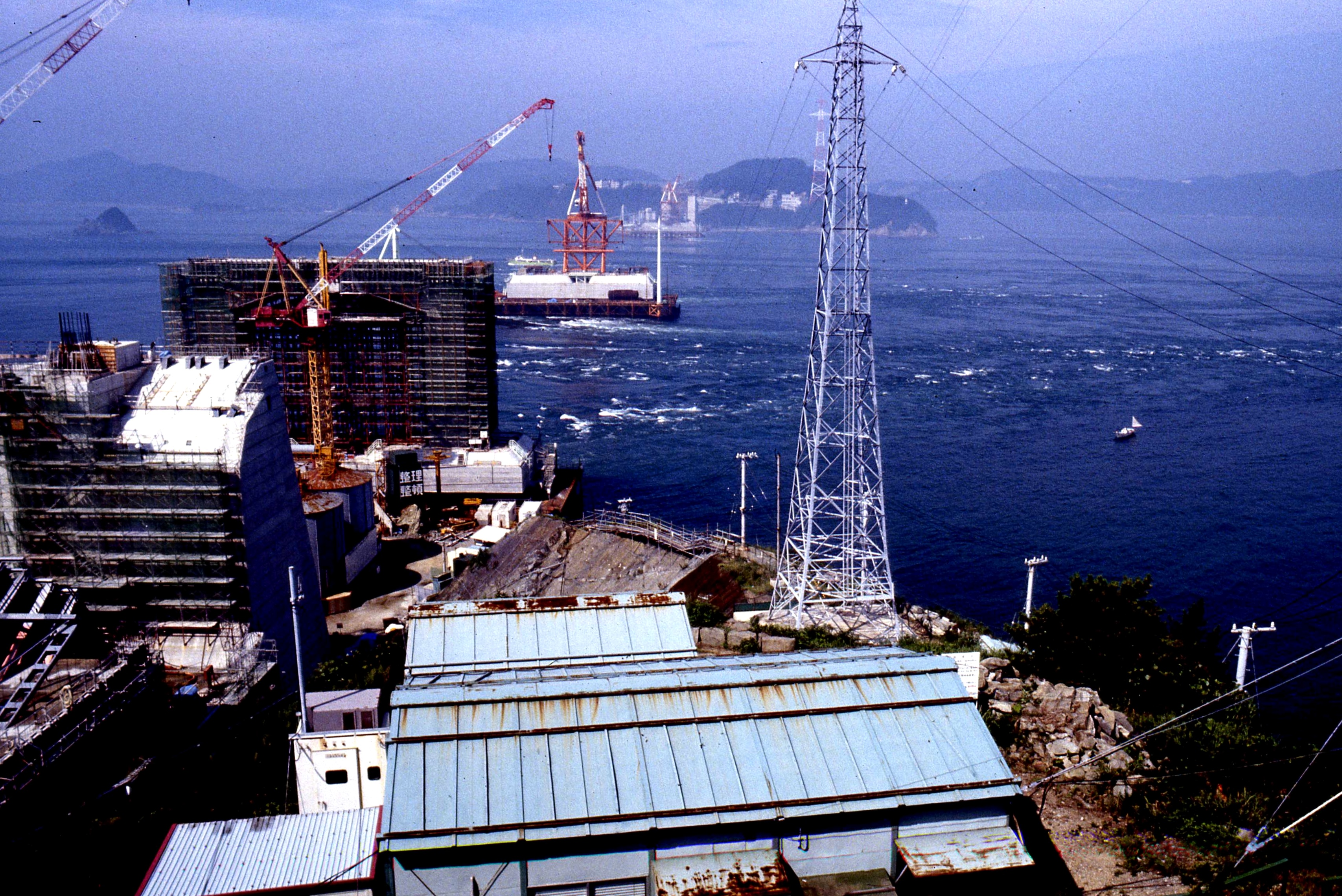 Naruto Strait Ōnaruto Bridge 1980